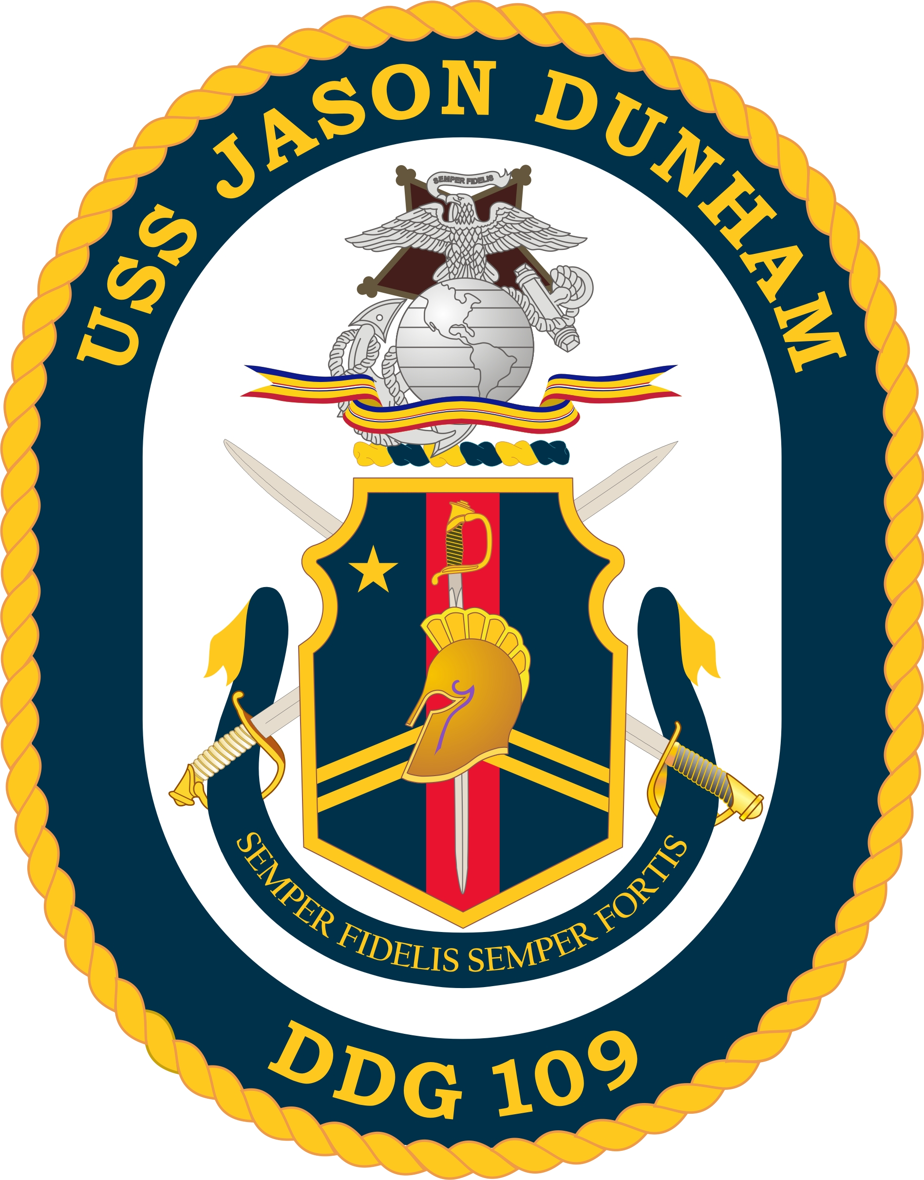 Emblem of the USS Jason Dunham (DDG-109)